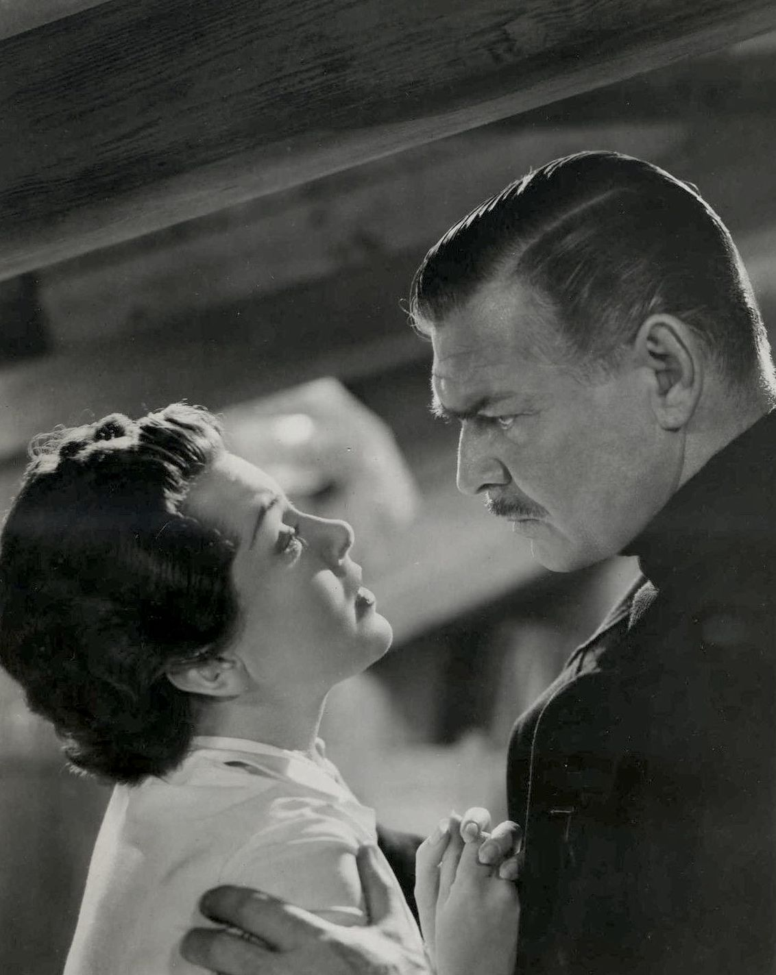 Lana Turner and Clark Gable in Betrayed